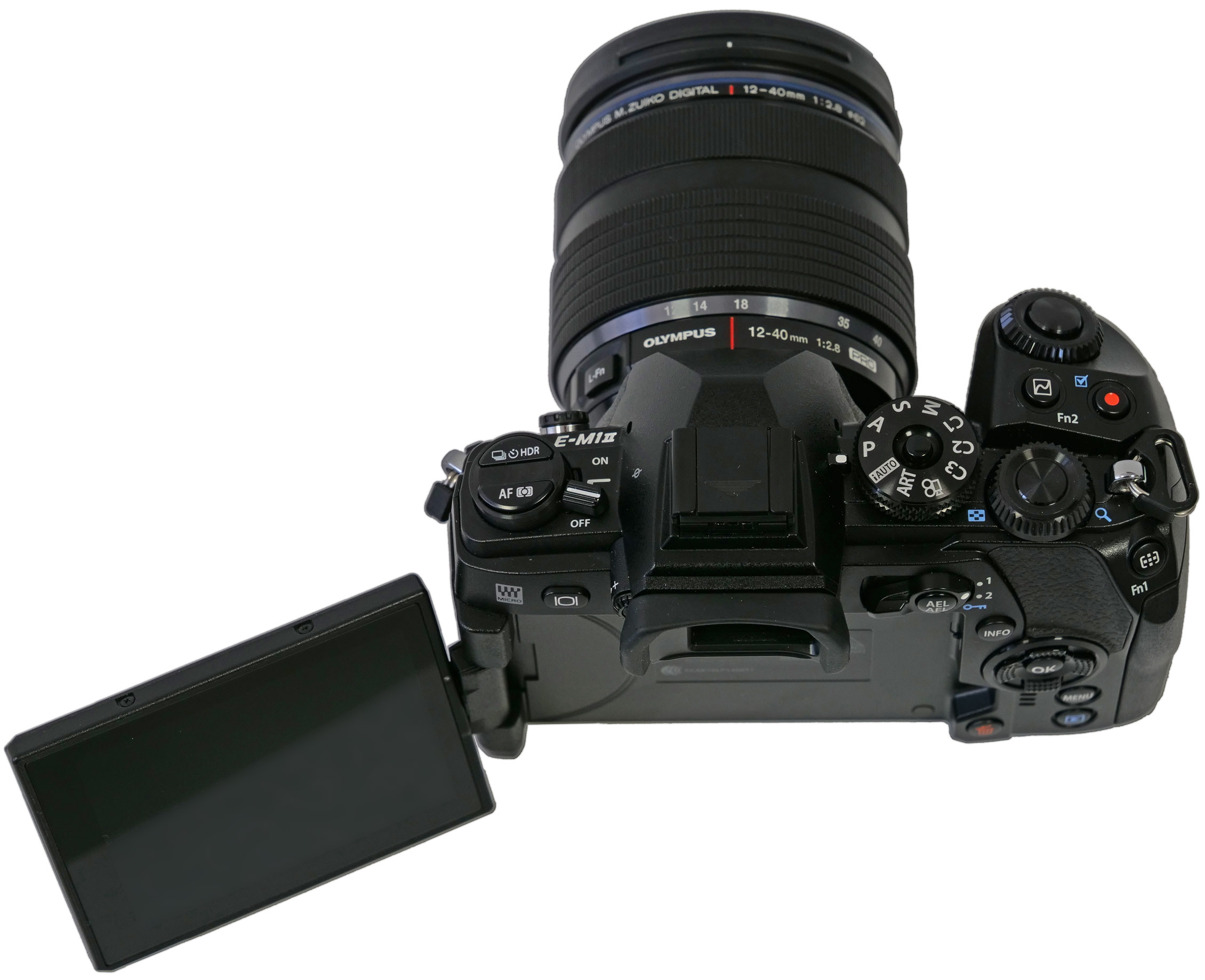 Olympus OM-D E-M1 Mark II, back view, with out-swivelled monitor and professional standard zoom lens 12-40 mm f/2.8